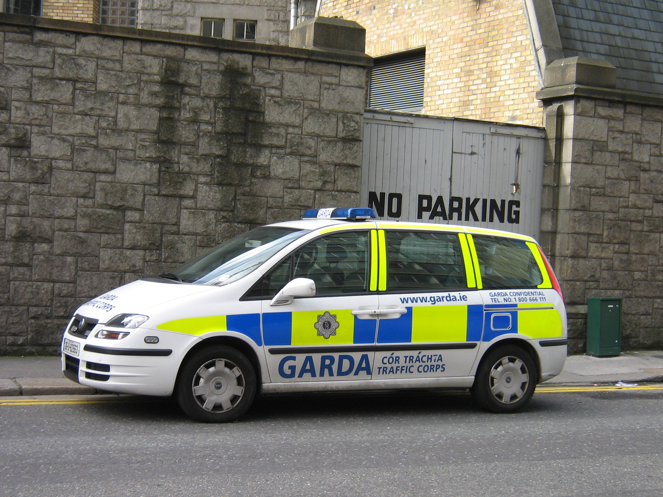 The Garda Traffic Corps in Dublin